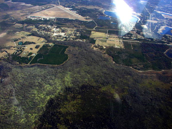 Aerial view looking east towards the airport in Keystone Heights, Florida. Shown from a P-51 Mustang during the Collings Foundation "Wings of Freedom Tour". Note the Santa Fe Swamp Conservation Area at the bottom and SR 100 in the middle of the image.